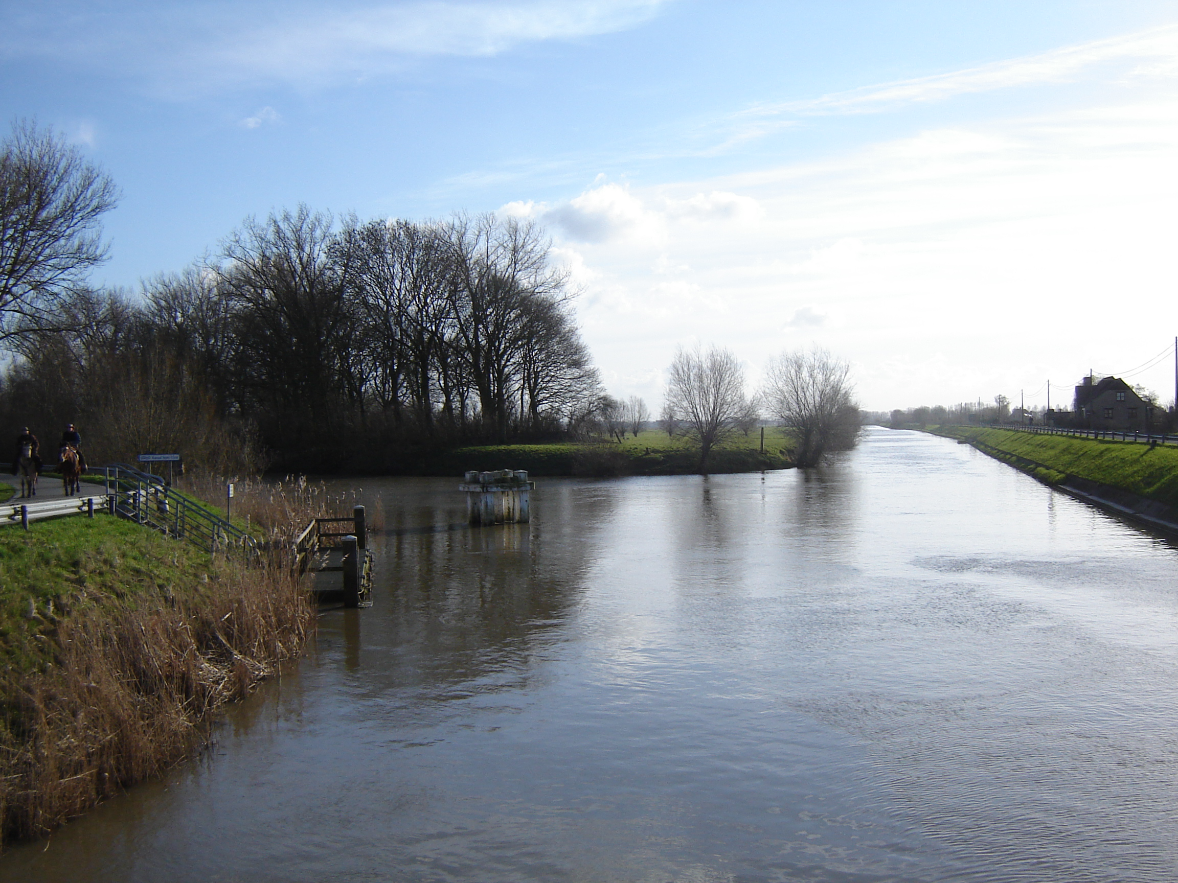 Confluence of the Ieperlee canal and the Yser, at the Knokkebrug bridge on the border of Reninge, Merkem and Nieuwkapelle. Reninge, Lo-Reninge, West Flanders, Belgium